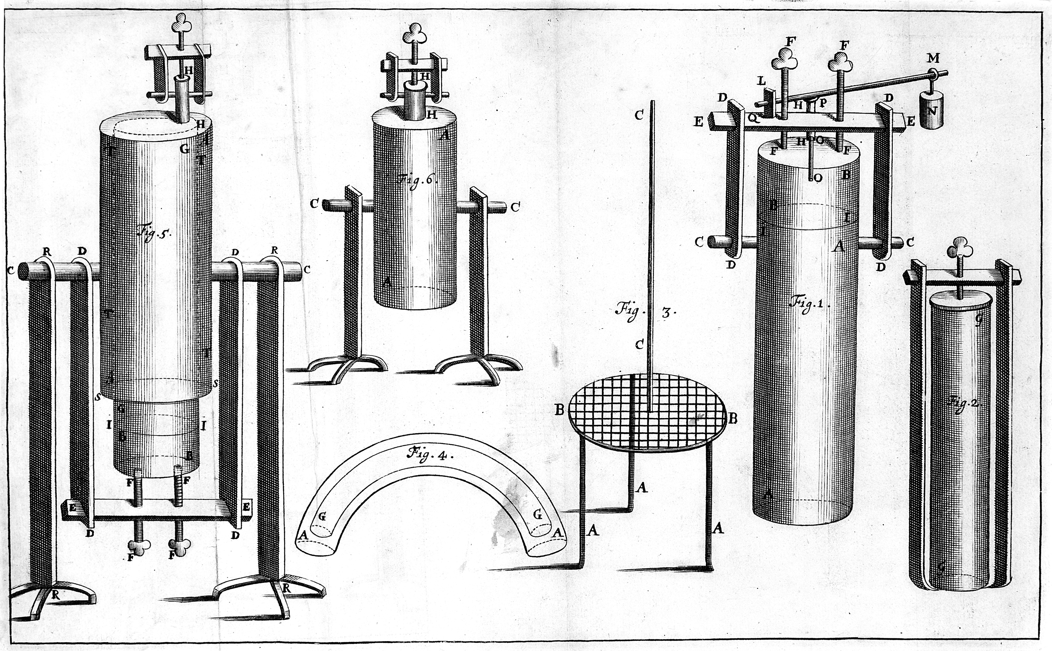 Papin's digester - the first form of pressure cooker. Rare Books Keywords: Denis Papin; Physics